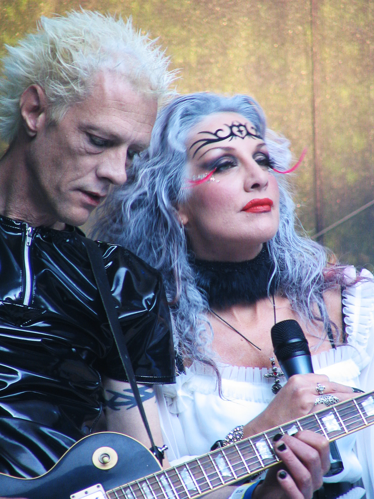 Singer Kemi Vita and guitarist Cees Viset from the German/Dutch gothic rock band The Dreamside during a performance at the Wave-Gotik-Treffen 2006.